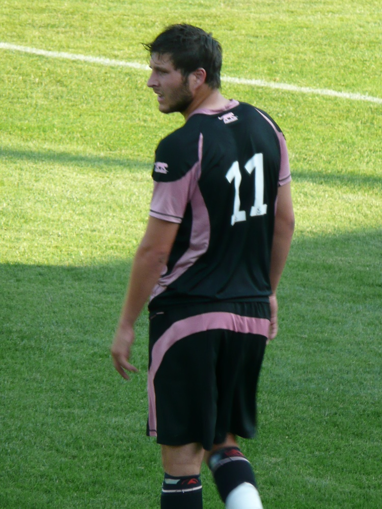 French soccer player